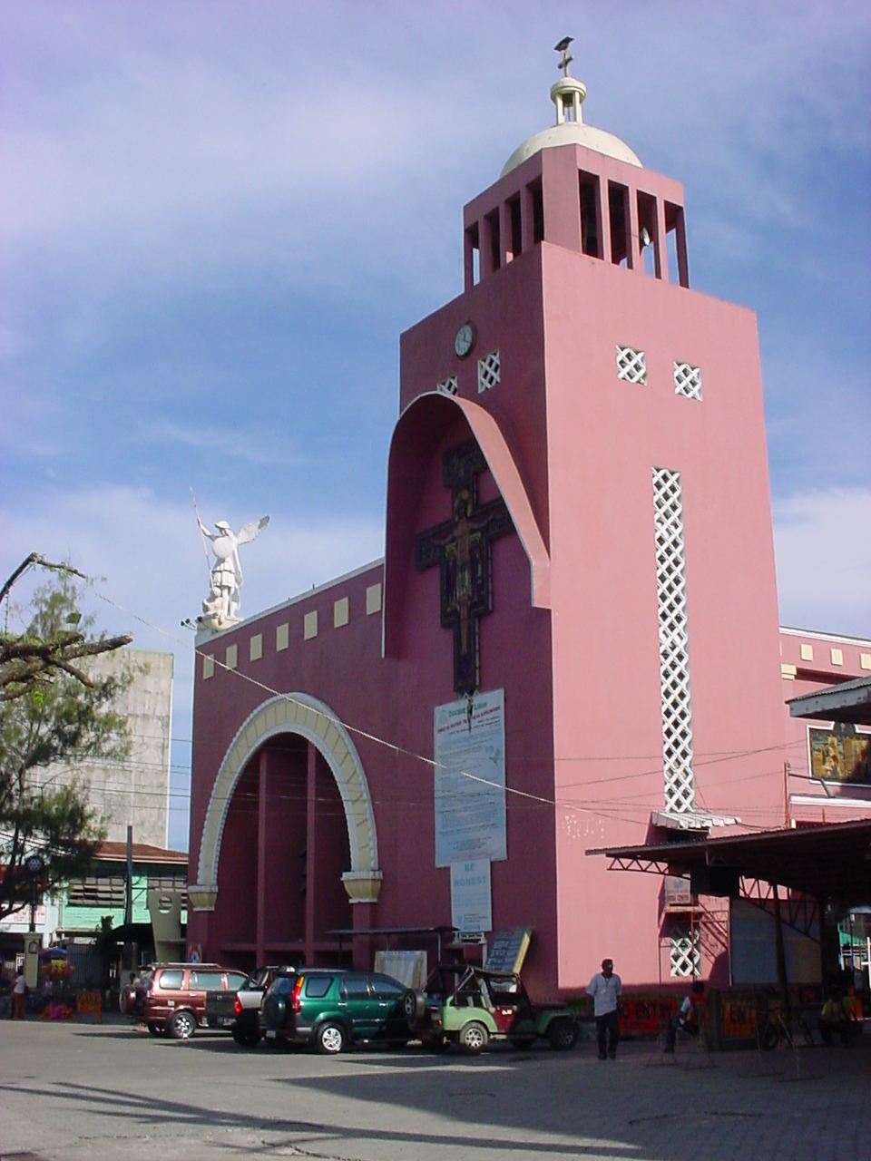 St. Michael's Cathedral of Iligan, Mindanao.